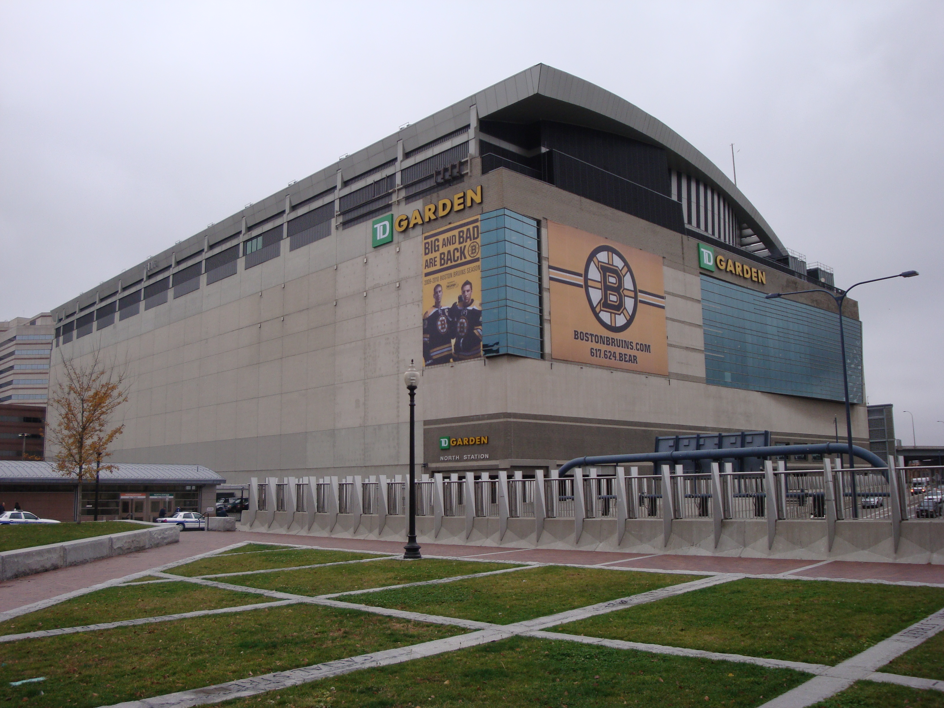 TD Garden in Boston, Massachusetts from the Rose Kennedy Greenway